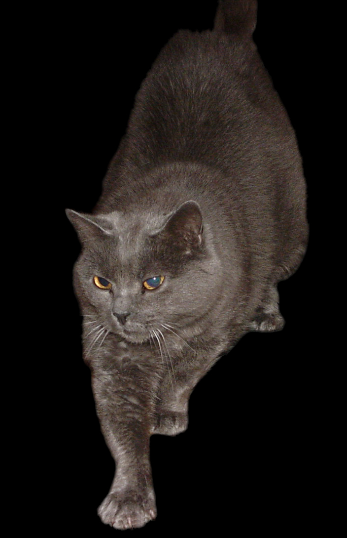 Chartreaux, 12 Years old, named 'Sir Lancelot'